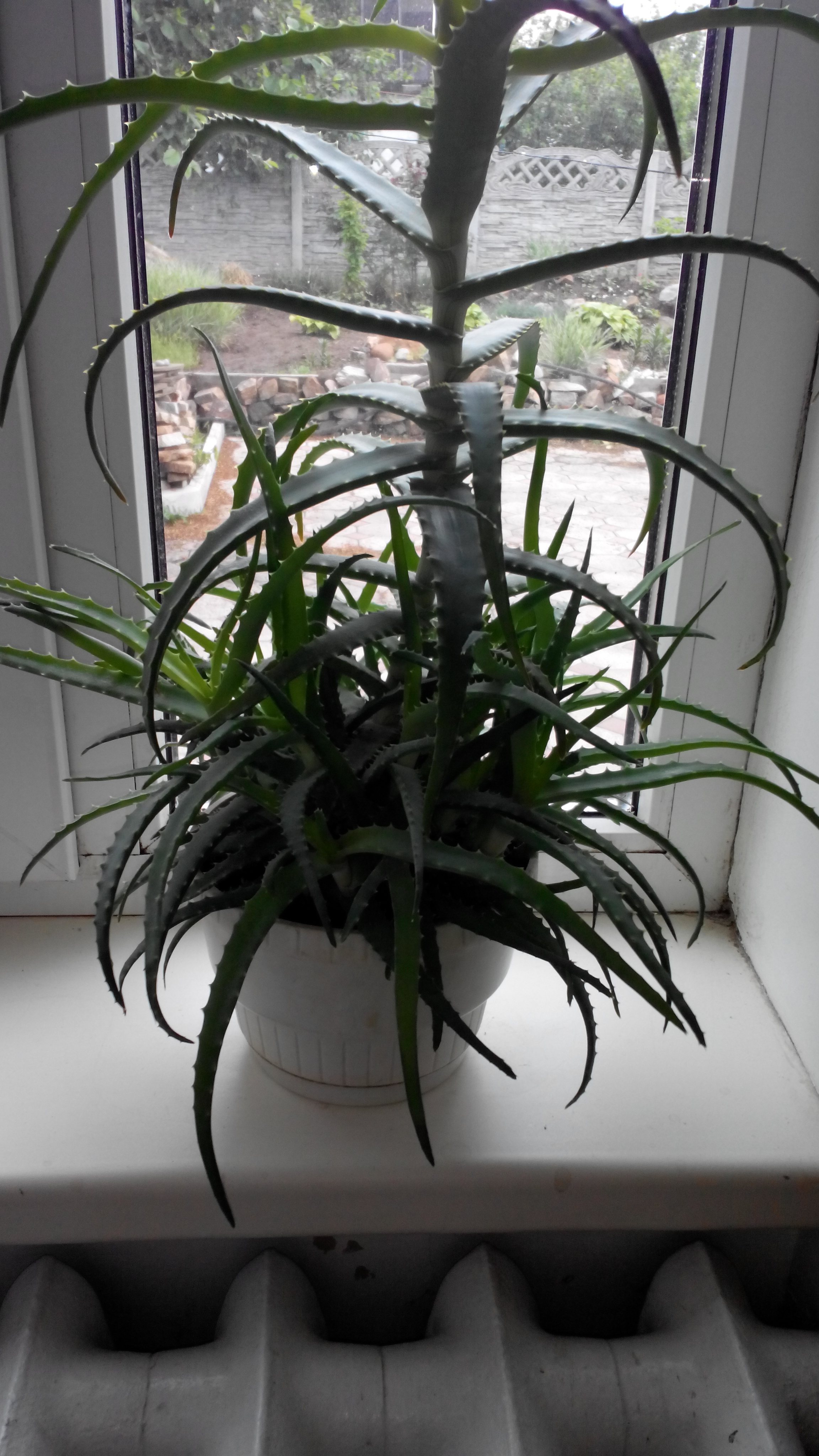 Room aloe